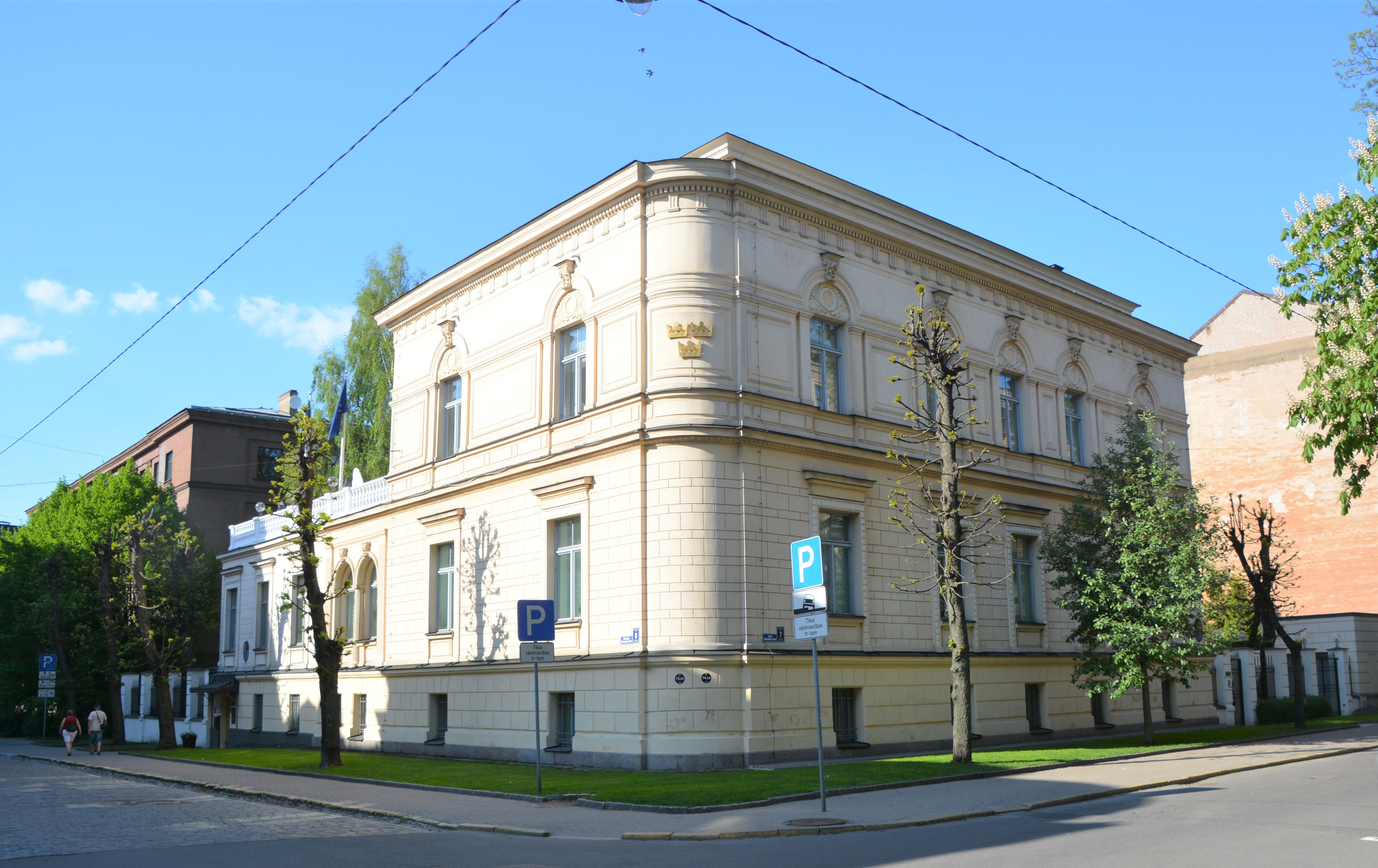 Swedish embassy, Riga